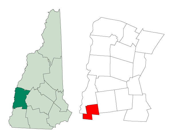 Map of a municipality in Sullivan County, New Hampshire